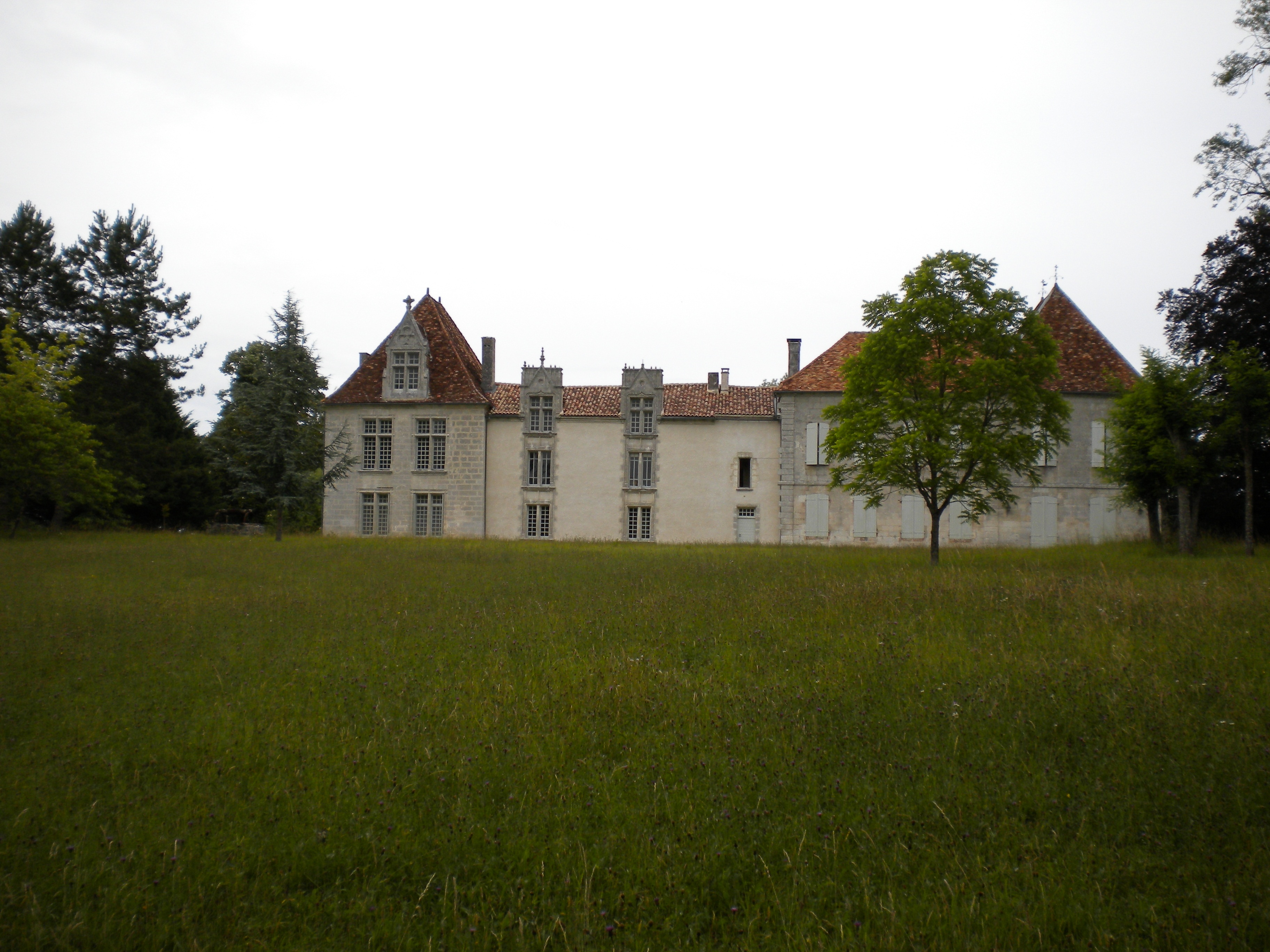 The Sixteenth Century castle Château de la Faye in the commune of Saint-Sulpice-de-Mareuil, Dordogne, France.